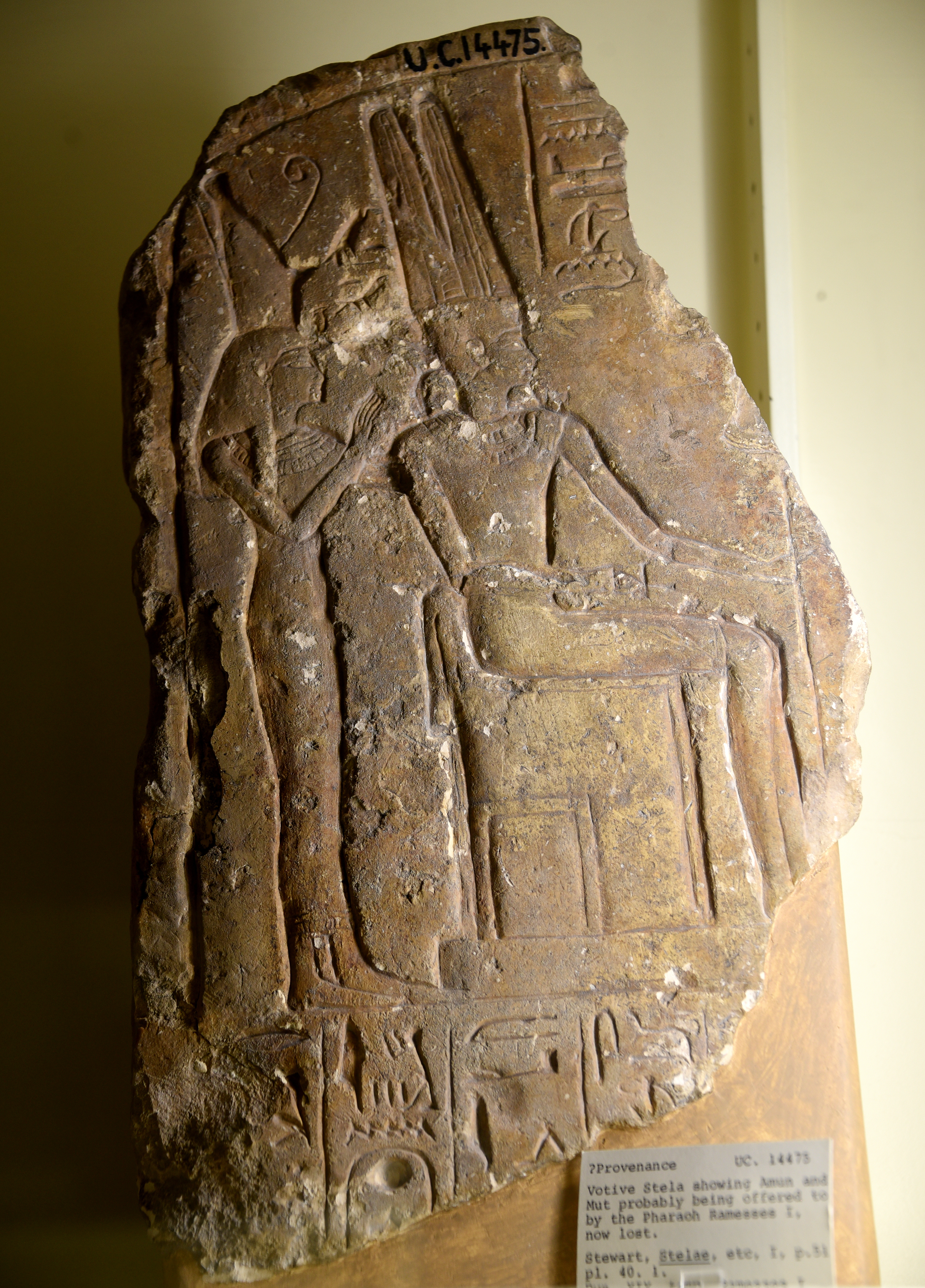 Fragment of a stela showing Amun enthroned. Mut, wearing the double crown, stands behind him. Both are being offered by Ramesses I, now lost. 19th Dynasty. From Egypt. The Petrie Museum of Egyptian Archaeology, London. With thanks to the Petrie Museum of Egyptian Archaeology, UCL.